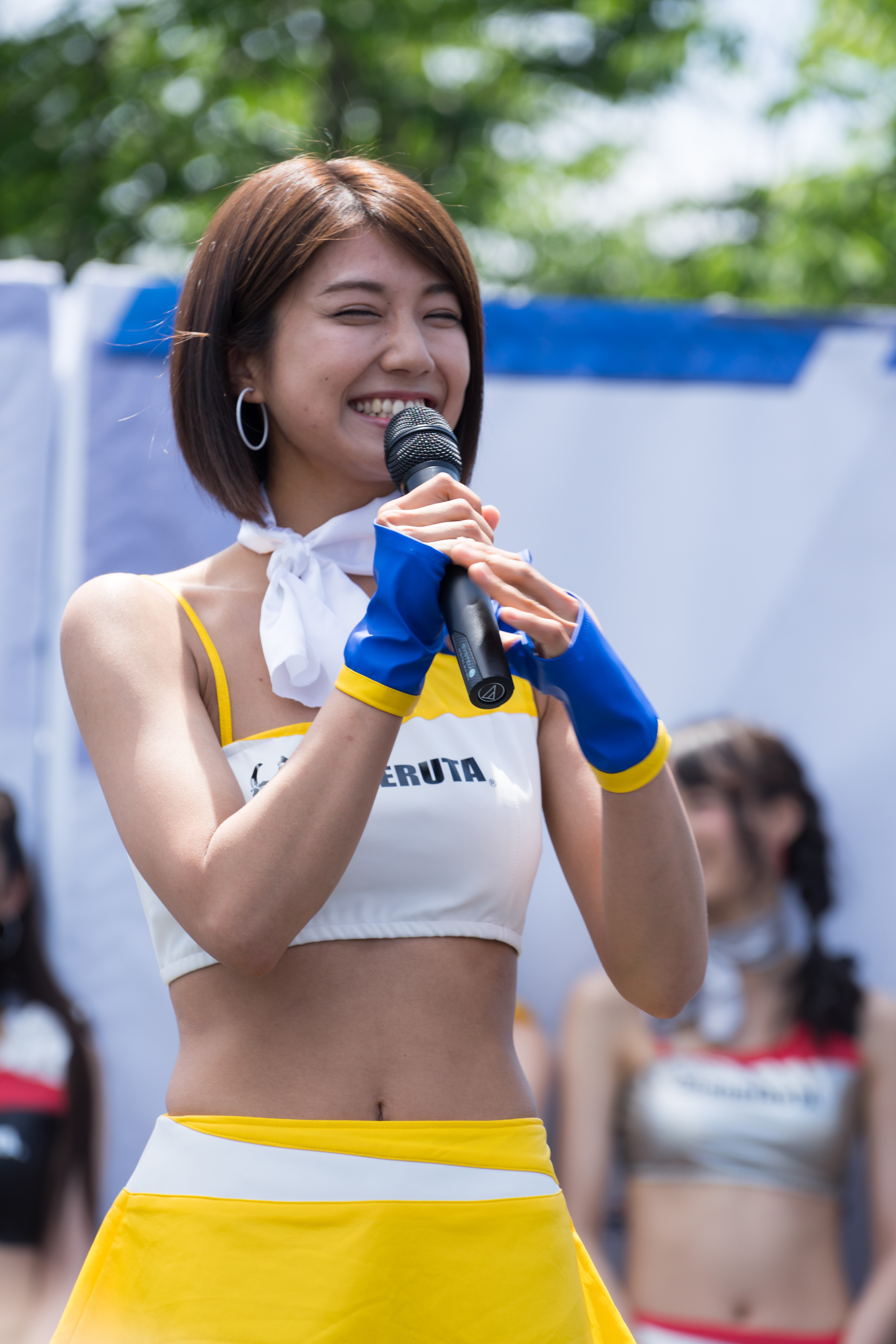 RED BULL AIR RACE CHIBA 2017-240.jpg